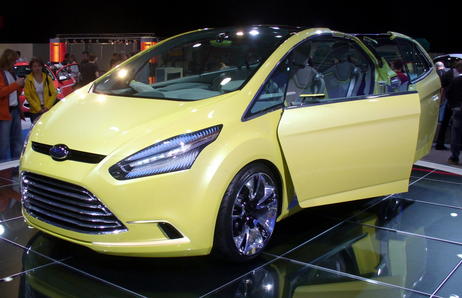 Ford Iosis Max